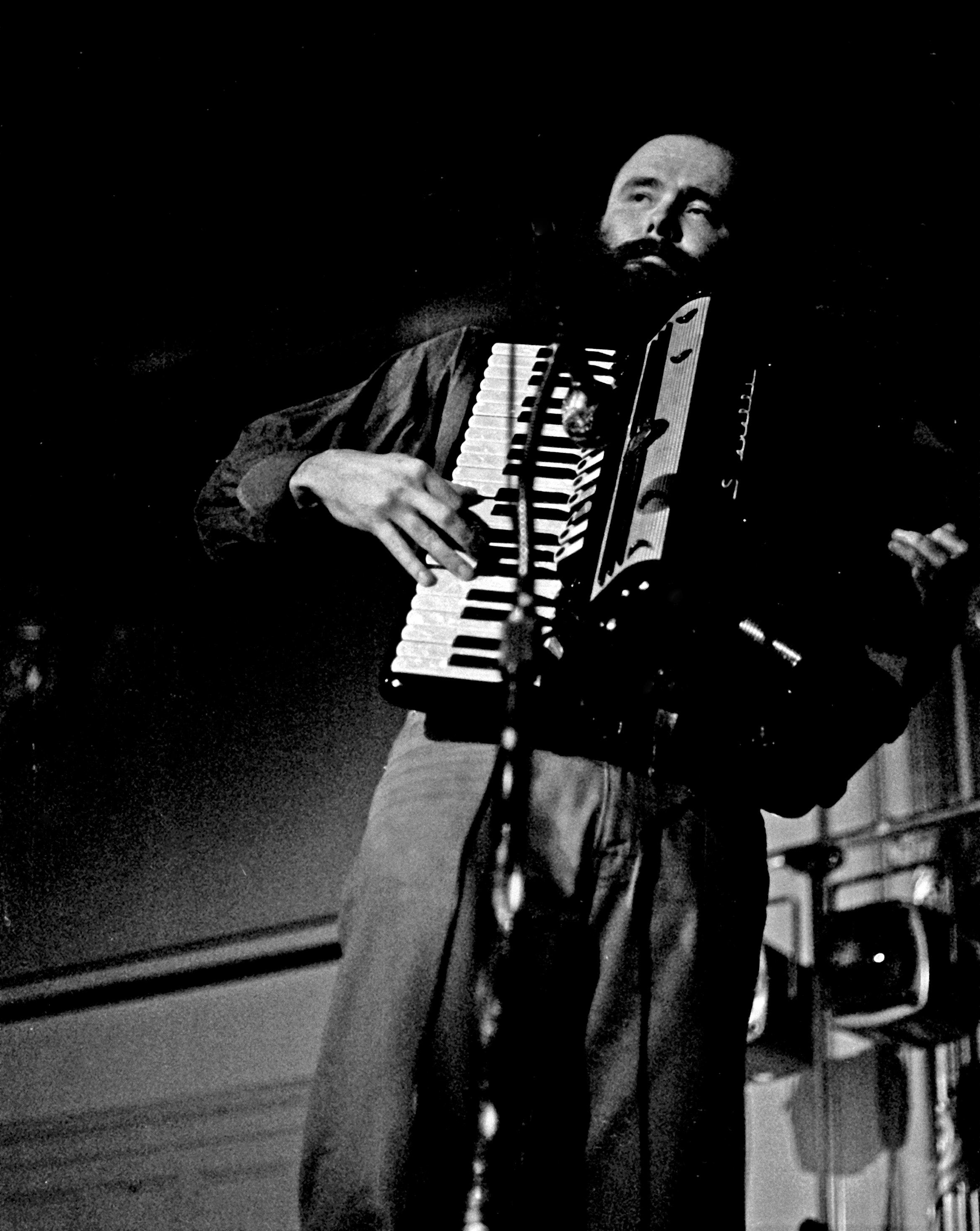 Garth Hudson performing with The Band. Hamburg, May 1971.